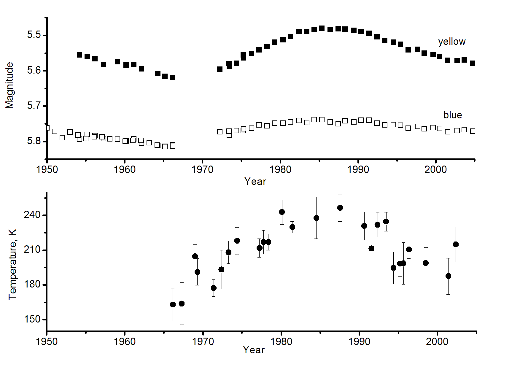 This image depicts changes of the visible magnitude of Uranus in the two spectral bands (upper graph) and effective microwave temperature (lower graph). The data shown here are from Lockwood, G.W.; Jerzykiewicz, Mikołaj (2006). "Photometric variability of Uranus and Neptune, 1950–2004". Icarus 180: 442-452. (Tables 1-3) and Klein, M.J.; Hofstadter, M.D. (2006) "Long-term variations in the microwave brightness temperature of the Uranus atmosphere". Icarus 184: 170-180. (Tables 1-2).